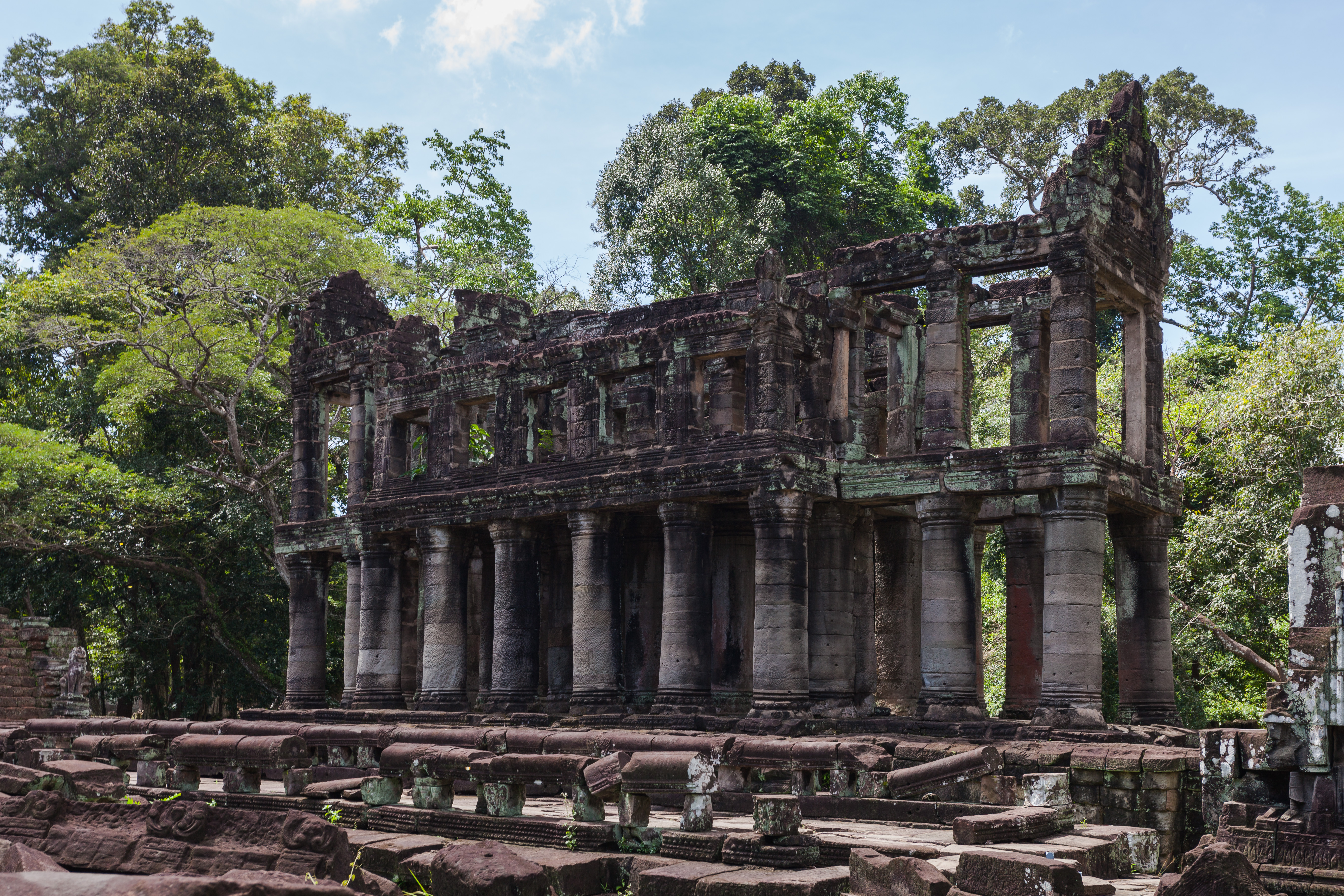 Preah Khan, Angkor, Cambodia